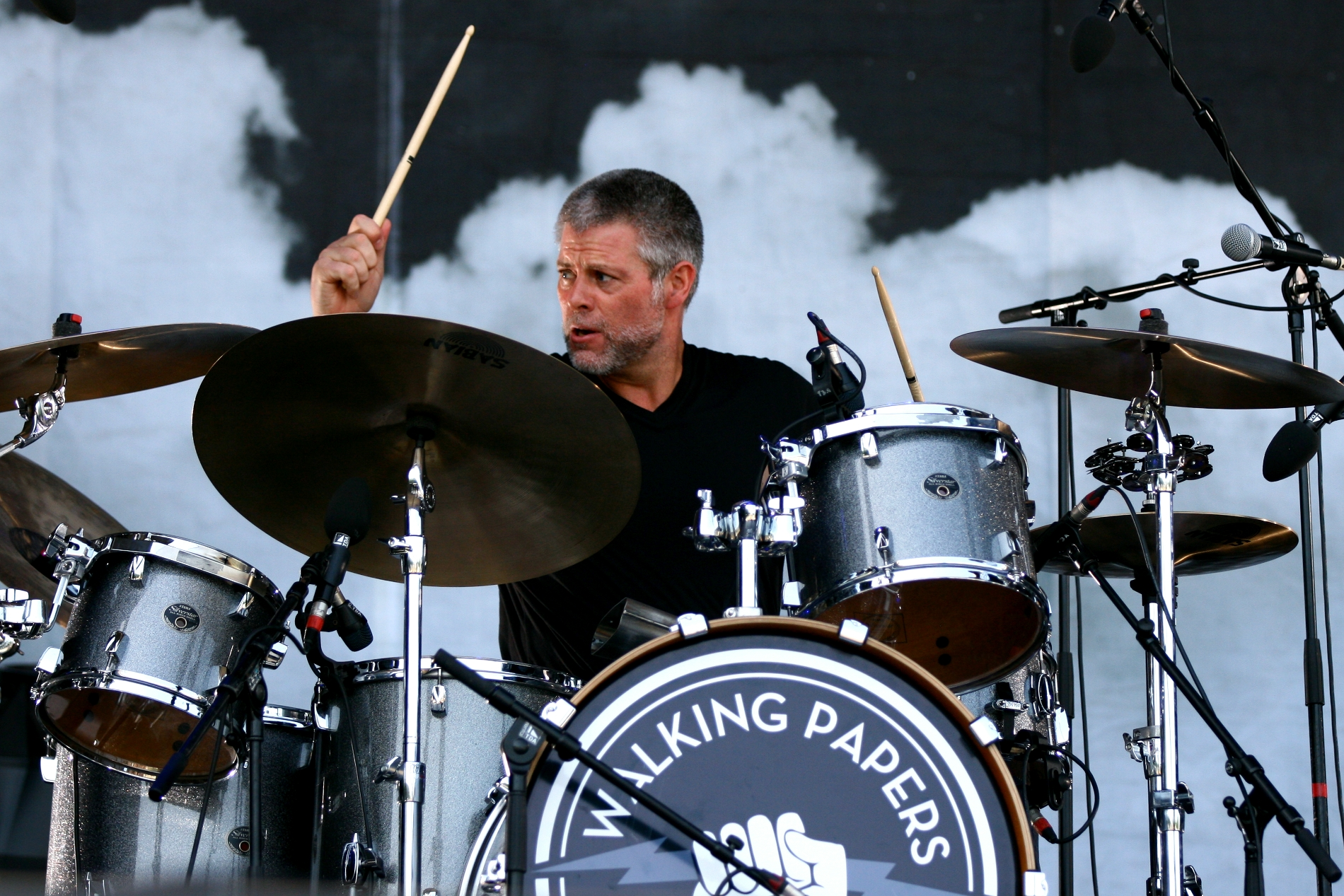 Barrett Martin, drummer of Walking Papers, on the Alternastage of Rock im Park Festival 2014. Festivalsommer This photo was created with the support of donations to Wikimedia Deutschland in the context of the CPB project "Festival Summer".